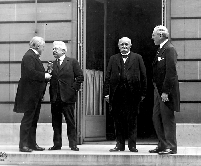 Council of Four at the WWI Paris peace conference, May 27, 1919 (candid photo) (L - R) Prime Minister David Lloyd George (Great Britian) Premier Vittorio Orlando, Italy, French Premier Georges Clemenceau, President Woodrow Wilson